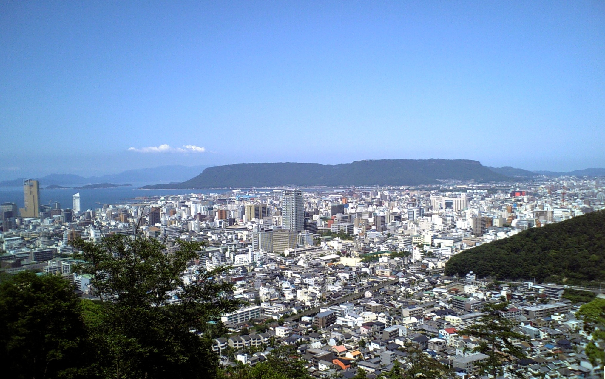 view of Takamatsu city center from Mt. Mineyama